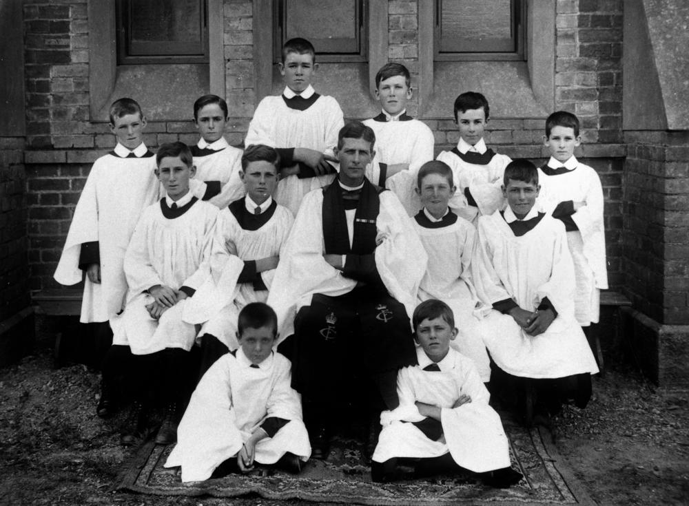 Choir boys of St Thomas' Anglican Church at Toowong, Brisbane, 1923